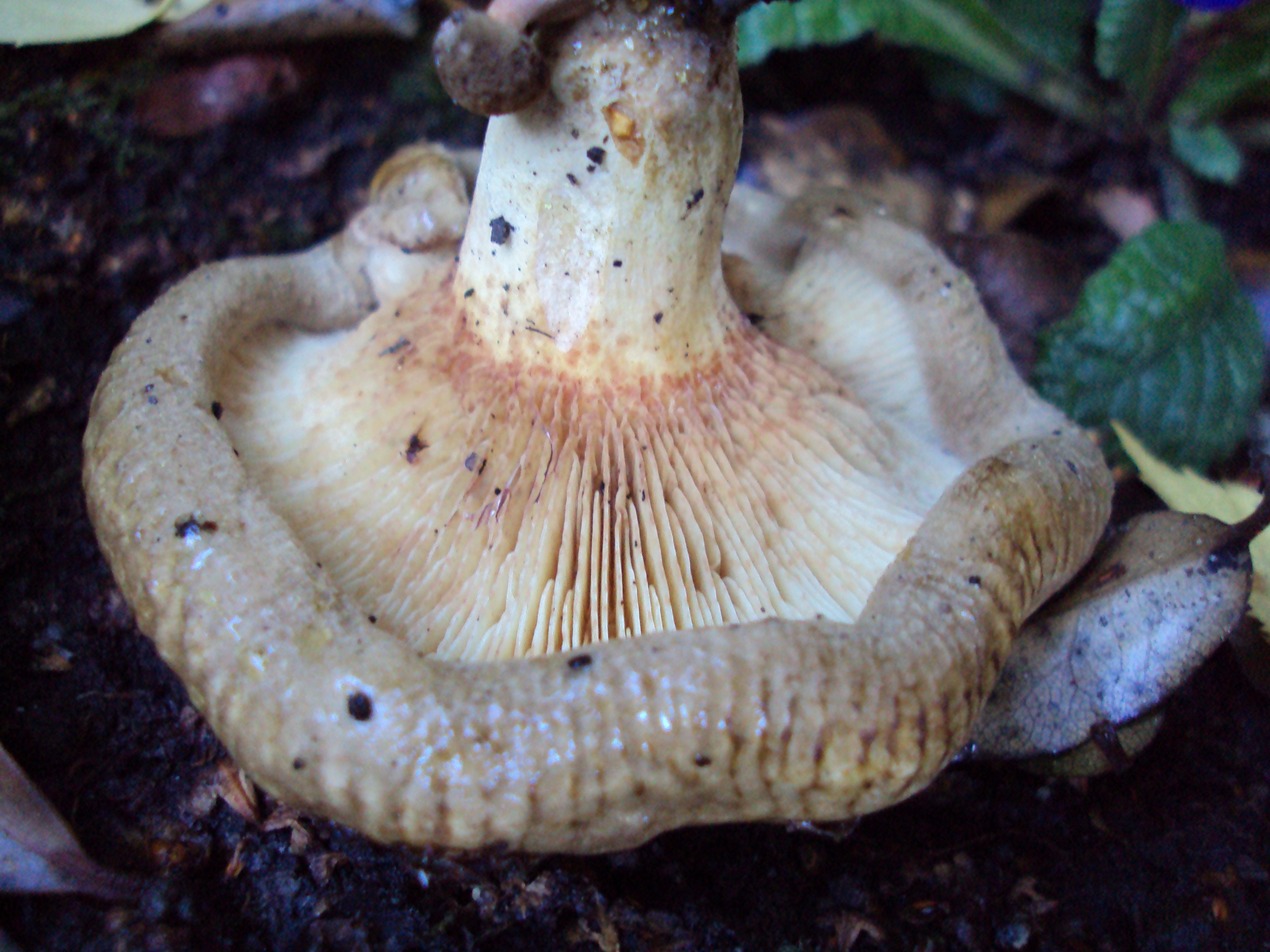 The underside of a fruit body of the basidiomycete fungus Paxillus involutus (Batsch) Fr. Specimen collected in Orinda, California, USA.